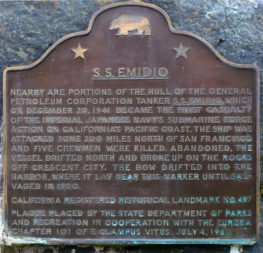 S.S. Emido Memorial and Marker. California Registered Historical Landmark No. 497 plaque reads: "S.S. Emidio. Nearby are portions of the hull of the General Petroleum Corporation tanker S.S. Emidio, which on December 20, 1941 became the first casualty of the Imperial Japanese Navy's submarine force action on California's Pacific Coast. The ship was attacked some 200 miles north of San Francisco and five crewmen were killed. Abandoned, the vessel drifted north and broke up on the rocks off Crescent City. The bow drifted into the harbor, where it lay near this marker until salvaged in 1950. California Registered Historical Landmark No. 497. Plaque placed by the California State Park Commission in cooperation with the Eureka Chapter 101 of E Clampus Vitus, July 4, 1982."